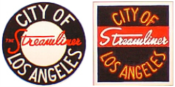 "Drumhead" logos from the UP-CNW City of Los Angeles passenger train.